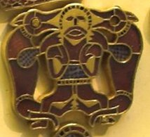 detail of purse-lid from the Sutton Hoo ship-burial 1, England. British Museum.